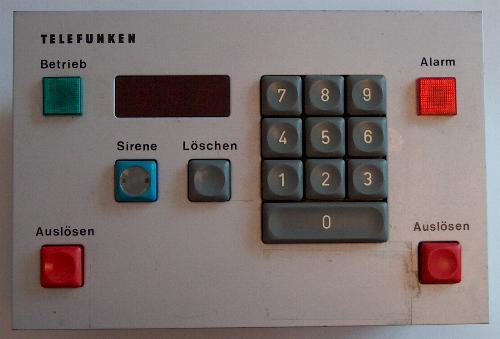 Alarm device with remote control for siren. To be placed with a emergency dispatchers radio